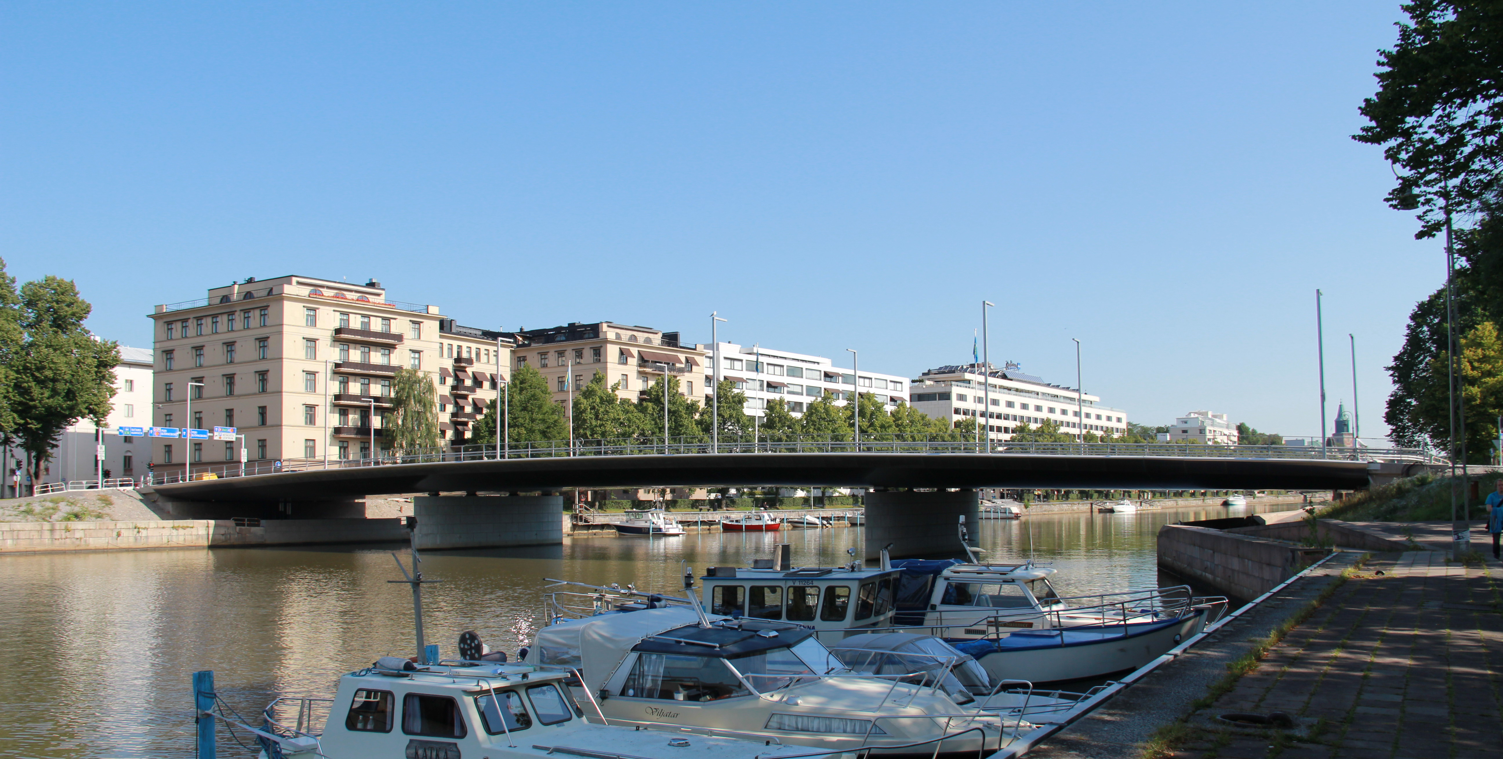 Myllysilta, Turku, Finland. August 2012. Profile.